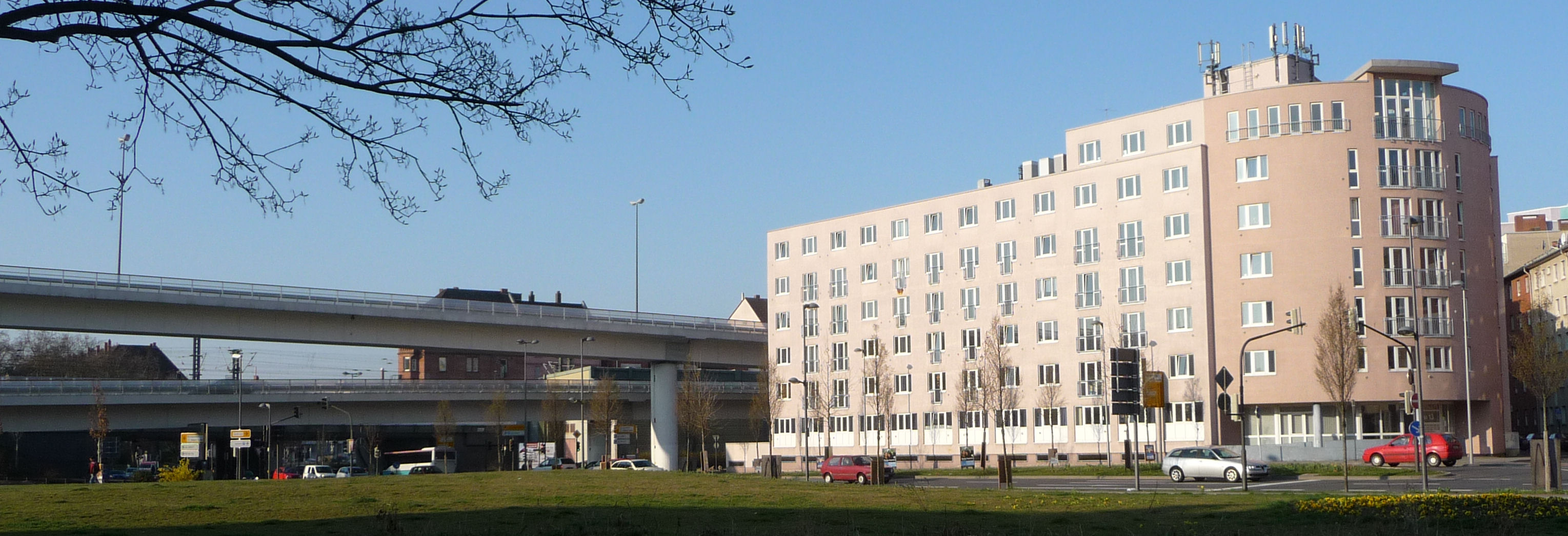 Dormitory in Ludwigshafen, Germany